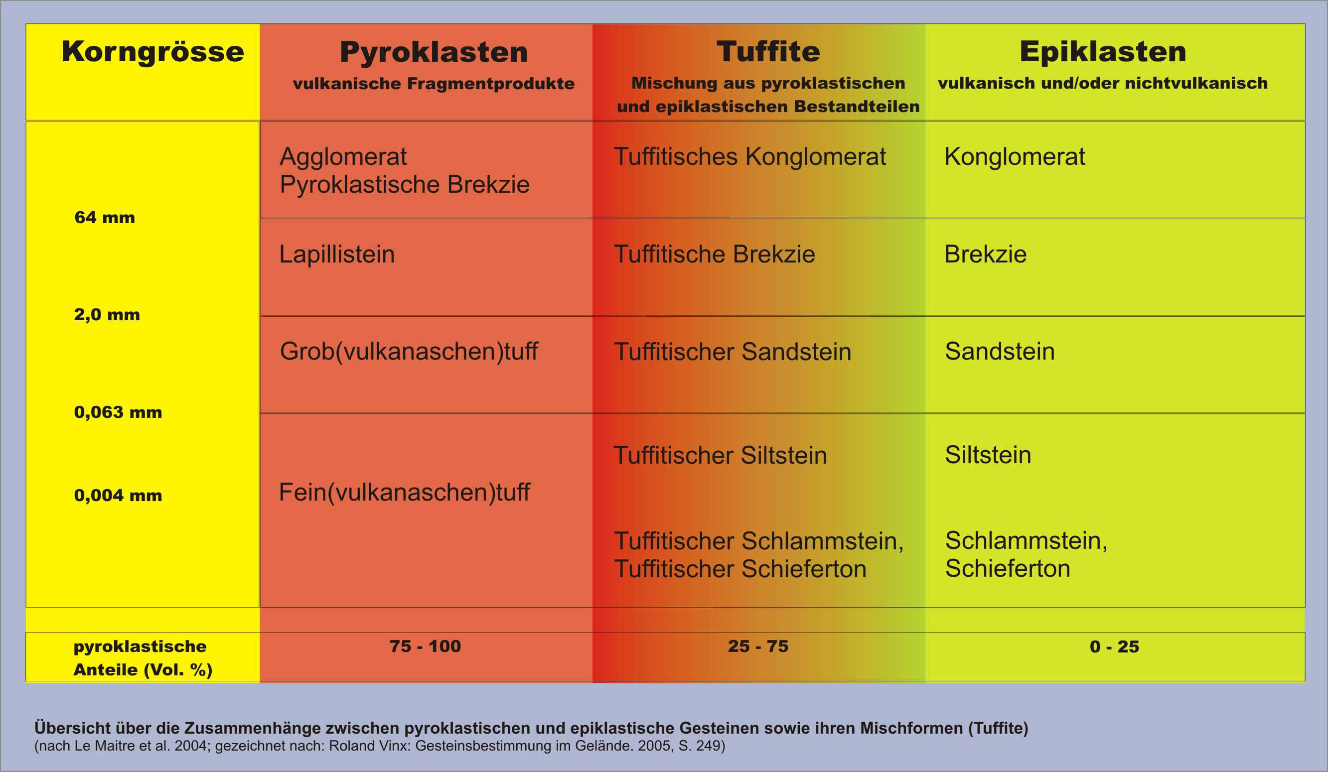 tuffite